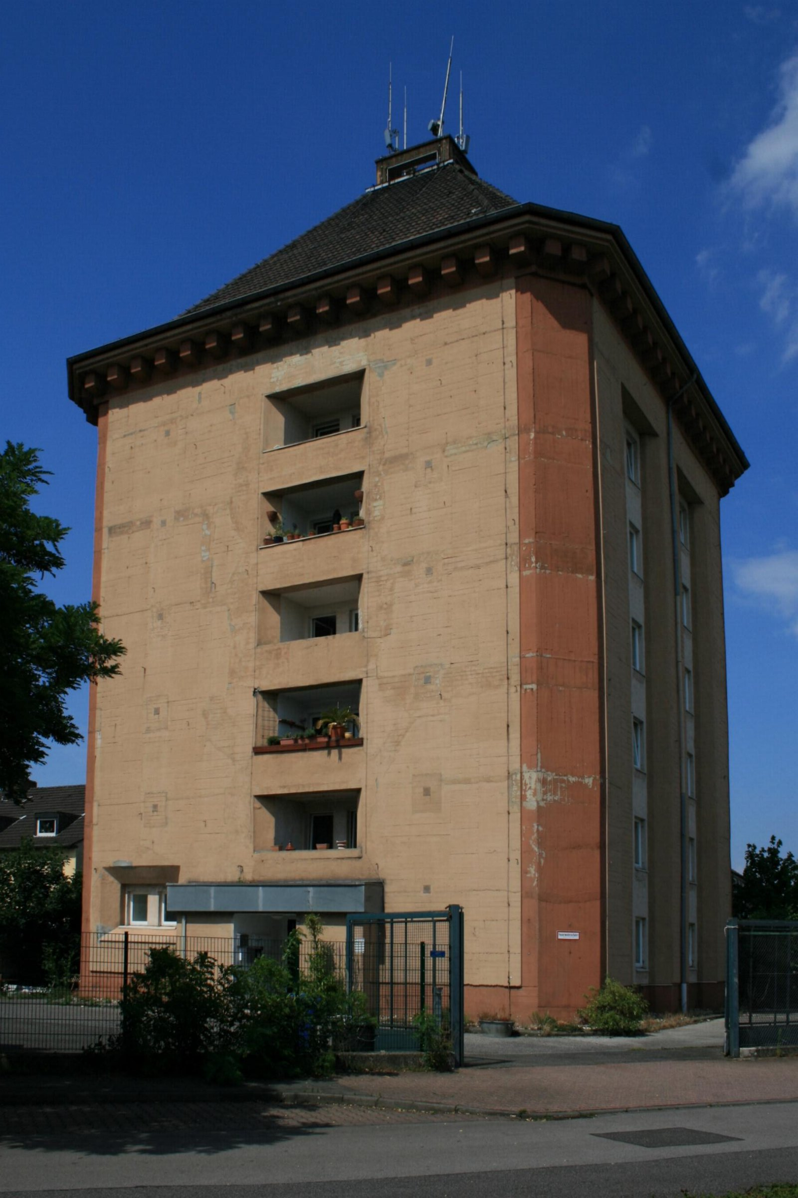 Cultural heritage monument No. N 019 in Mönchengladbach